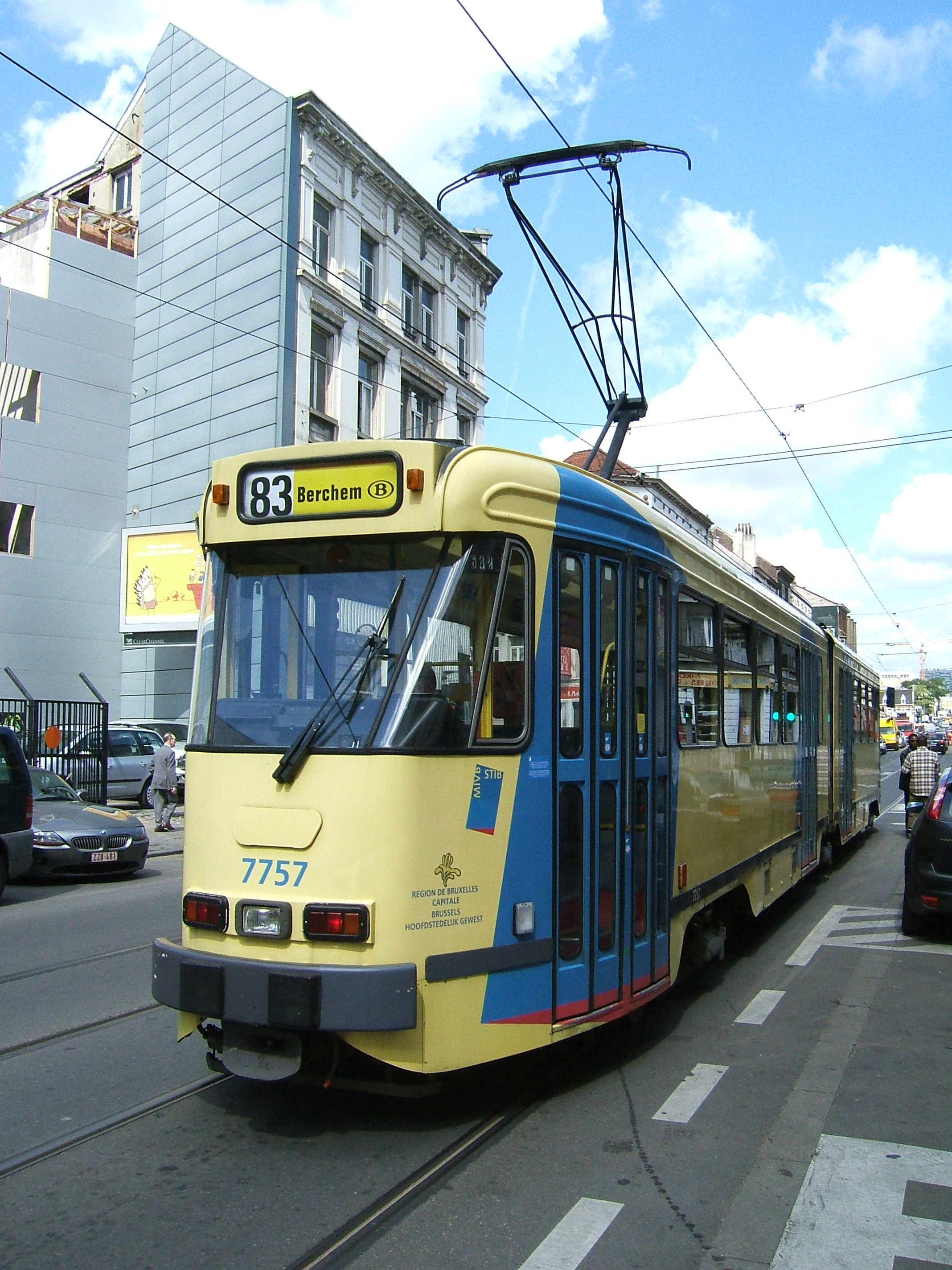 83 in Clemenceau Street Due to restructuring in the network, tram line 83 in Brussels will be discontinued after June 30. The stretch Bara square-Delacroix, about one kilometre long, is being abandoned.